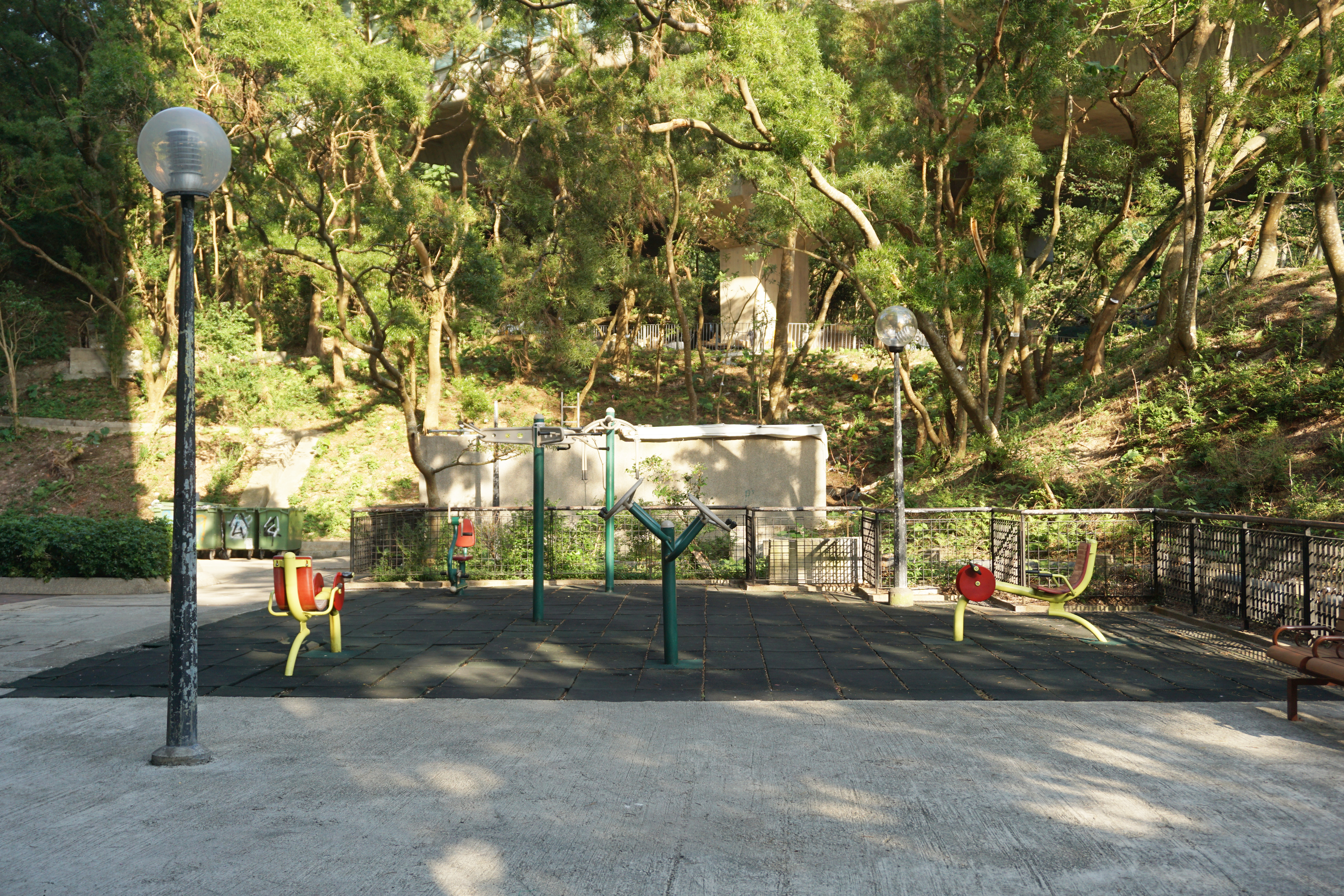 Kam Ying Court in Ma On Shan, Hong Kong.